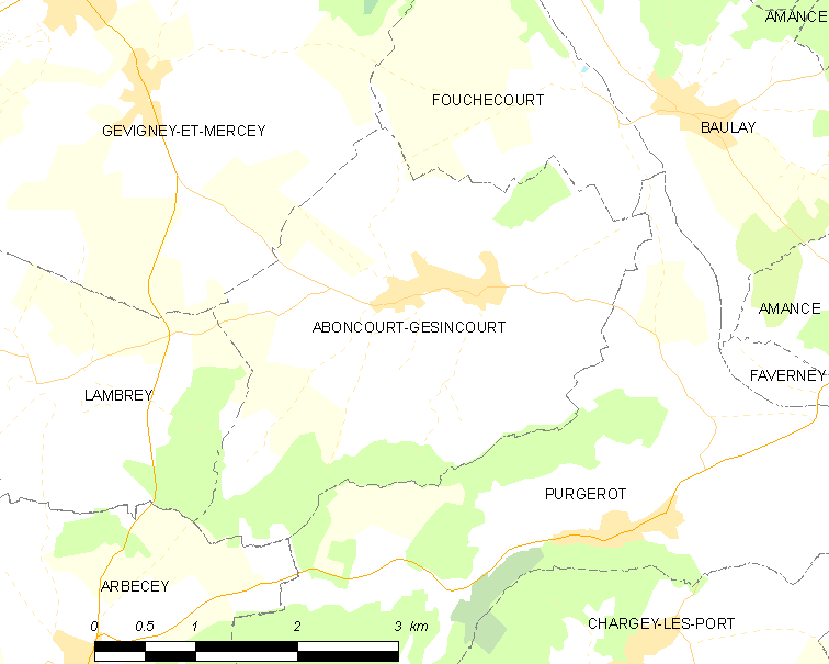 Map of French municipality